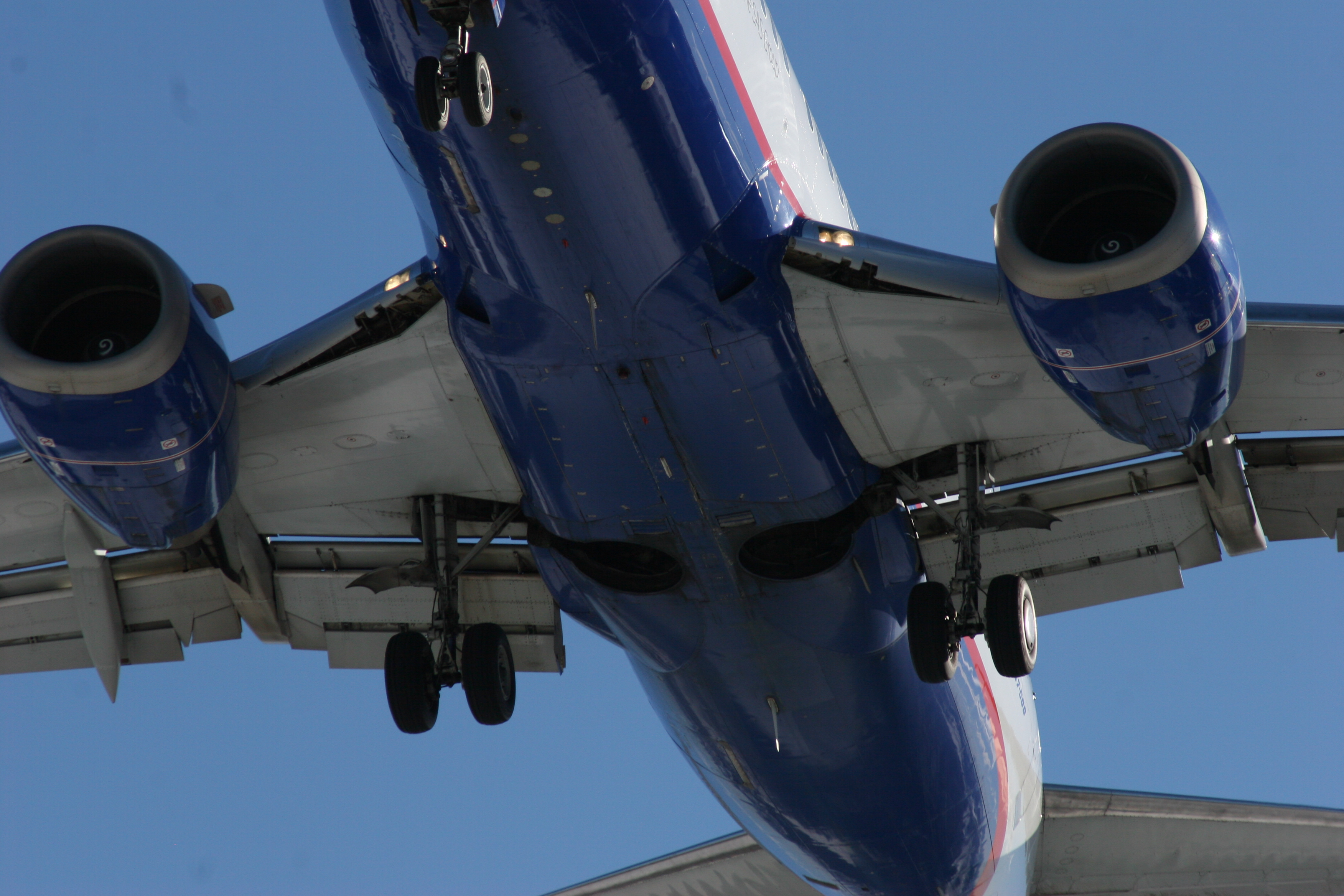 Aircraft, destinations: Oslo Airport,Gardermoen.